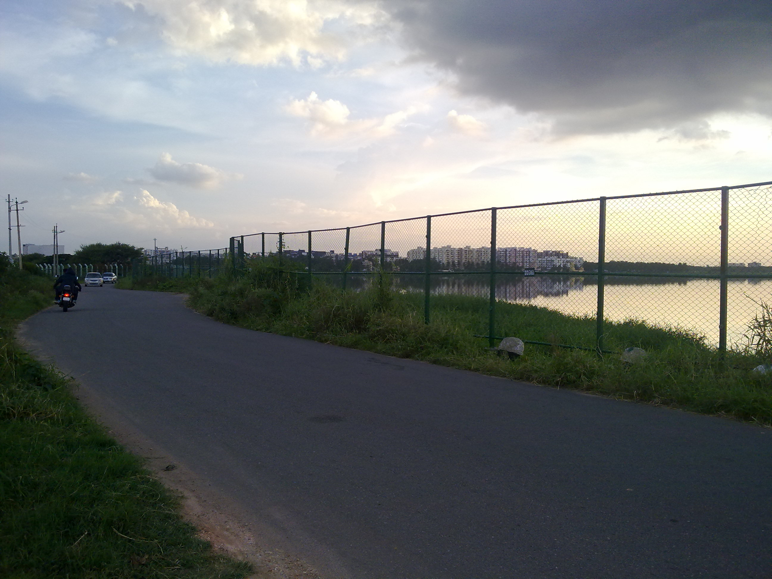 Lake which lies to the southeast of the city of Bangalore, and is the largest lake in the city. It is a part of Bellandur drainage system that drains the southern and the southeastern parts of the city. The lake is a receptor from three chains of lakes upstream, and has a catchment area of about 148 square kilometres (37,000 acres). Water from this lake flows further east to the Varthur Lake, from where it flows down the plateau and eventually into the Pinakani river basin.[1] It is currently highly polluted with sewage. Since the lake is not developed tourism activities like boating, rowing are not available here.